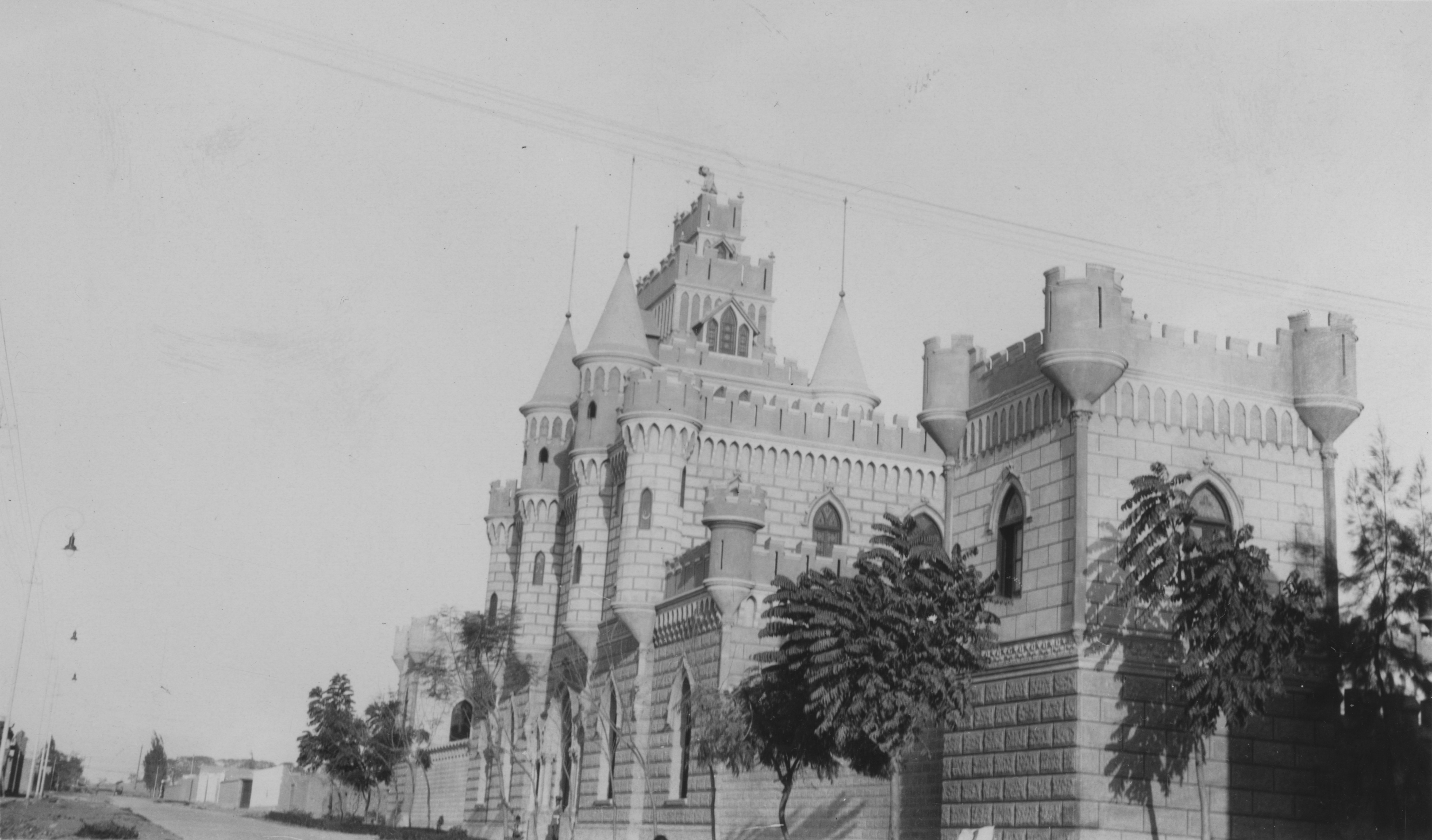 Rospigliosi Castle in Lima, Peru. Apparently it was built in 1929 in anticipation of a visit from the King of Spain, who never came, and the builder (Carlos Rospigliosi) thereafter used it as his residence.